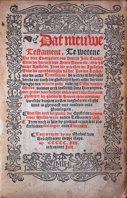 Frontispiece of Dutch language version of the New Testament published by Michiel Hillen van Hoochstraten in Antwerp in 1530